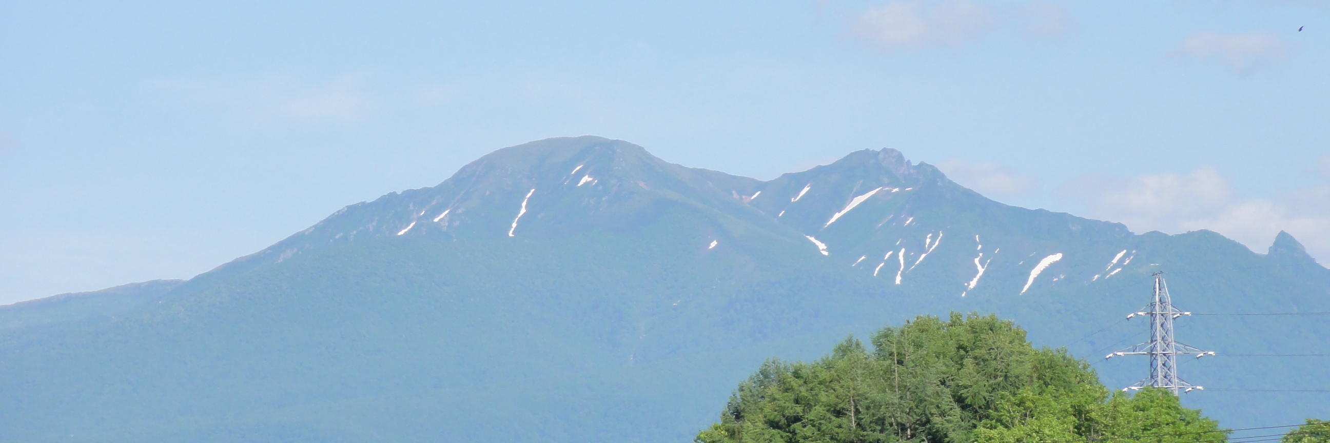 Mt.Niseikausyuppe,from Kmikawasouunnkyou-IC,Hokkaido,Japan